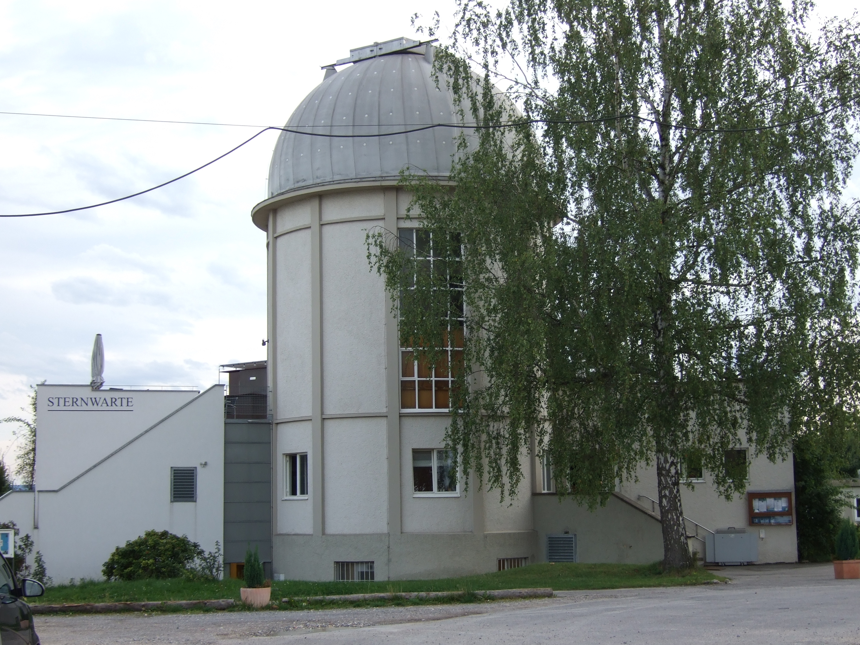 observatory Tübingen front